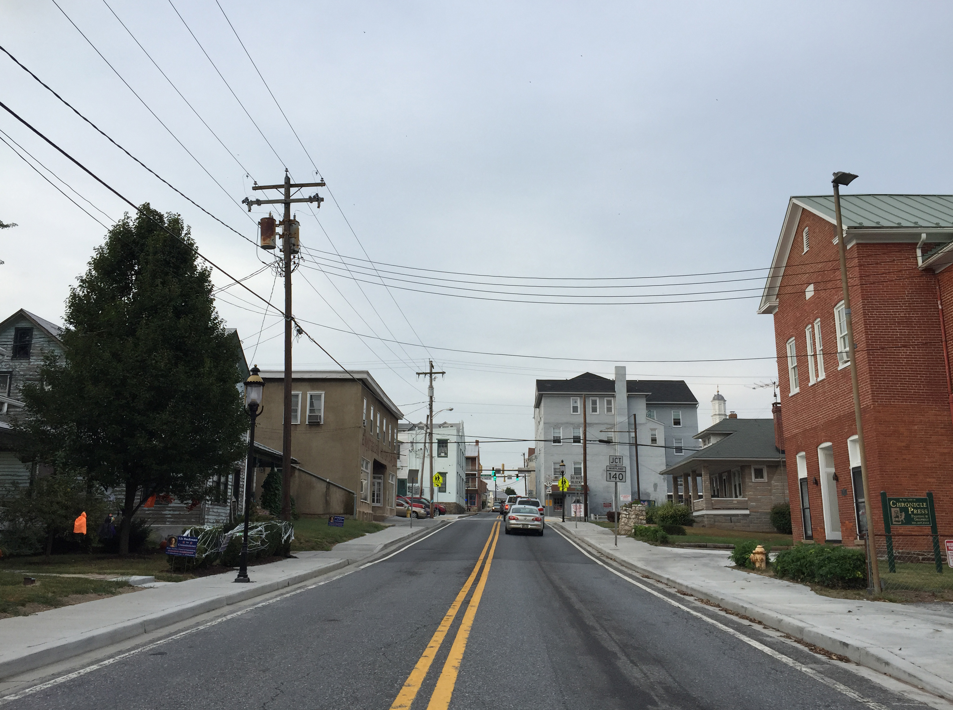 View north along U.S. Route 15 Business (Seton Avenue) between School Lane and Lincoln Avenue in Emmitsburg, Frederick County, Maryland